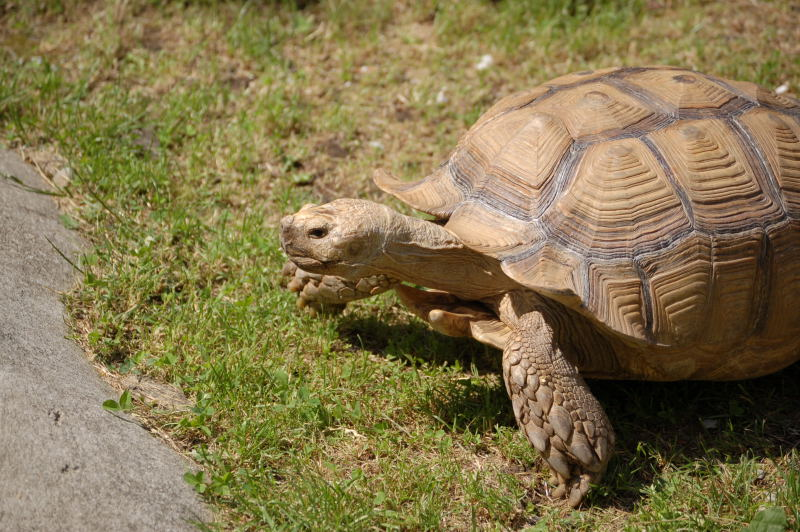 Picture of turtle from zoo.